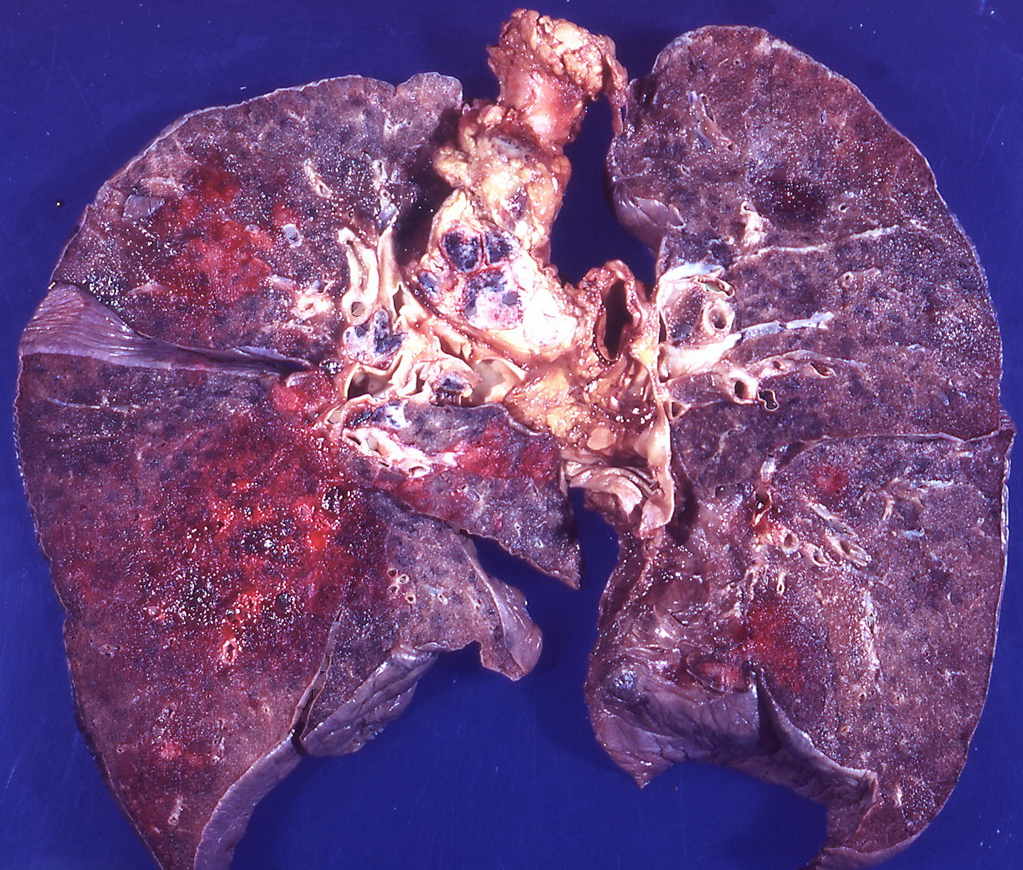 Hemorrhagic pneumonia due to Candida infection. The patient had been on high dose corticosteroid treatment for lymphoma which is seen involving enlarged paratracheal lymph nodes.